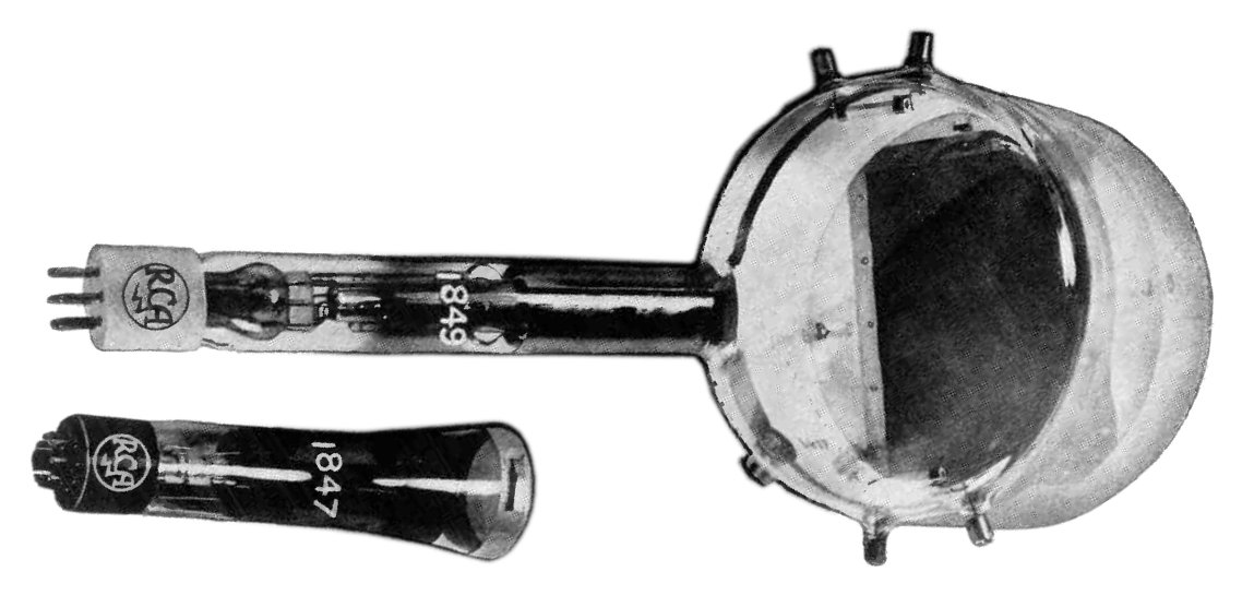 Two iconoscope tubes. The iconoscope, invented by Vladimir Zworykin in 1933, was the first practical video camera tube, used in the first historic television broadcasts such as the 1936 Berlin Olympics, and used until about 1946. The RCA type 1849 (top) was the typical tube used in studio television cameras. In the round section (right) looking through the optical "window" in the tube, the dark photosensitive "mosaic" surface can be seen, made of a metal plate covered with a mica sheet with a coating of microscopic silver grains. An electron gun in the "neck" of the tube (left) first scans this surface, depositing a negative charge on it. The camera's lens focuses the image on this surface, and in areas where light falls electrons are ejected from the surface, discharging it. When the electron beam scans the surface again, charged areas reflect the beam, and the reflected electrons strike the "collector ring" electrode around the periphery of the tube and produce the video signal at the contacts on the side, which were connected to the video amplifier. The type 1847 (bottom) was smaller but worked similarly. Alterations to image: Cropped out caption and background, rotated image so tubes are horizontal so there is less wasted space.